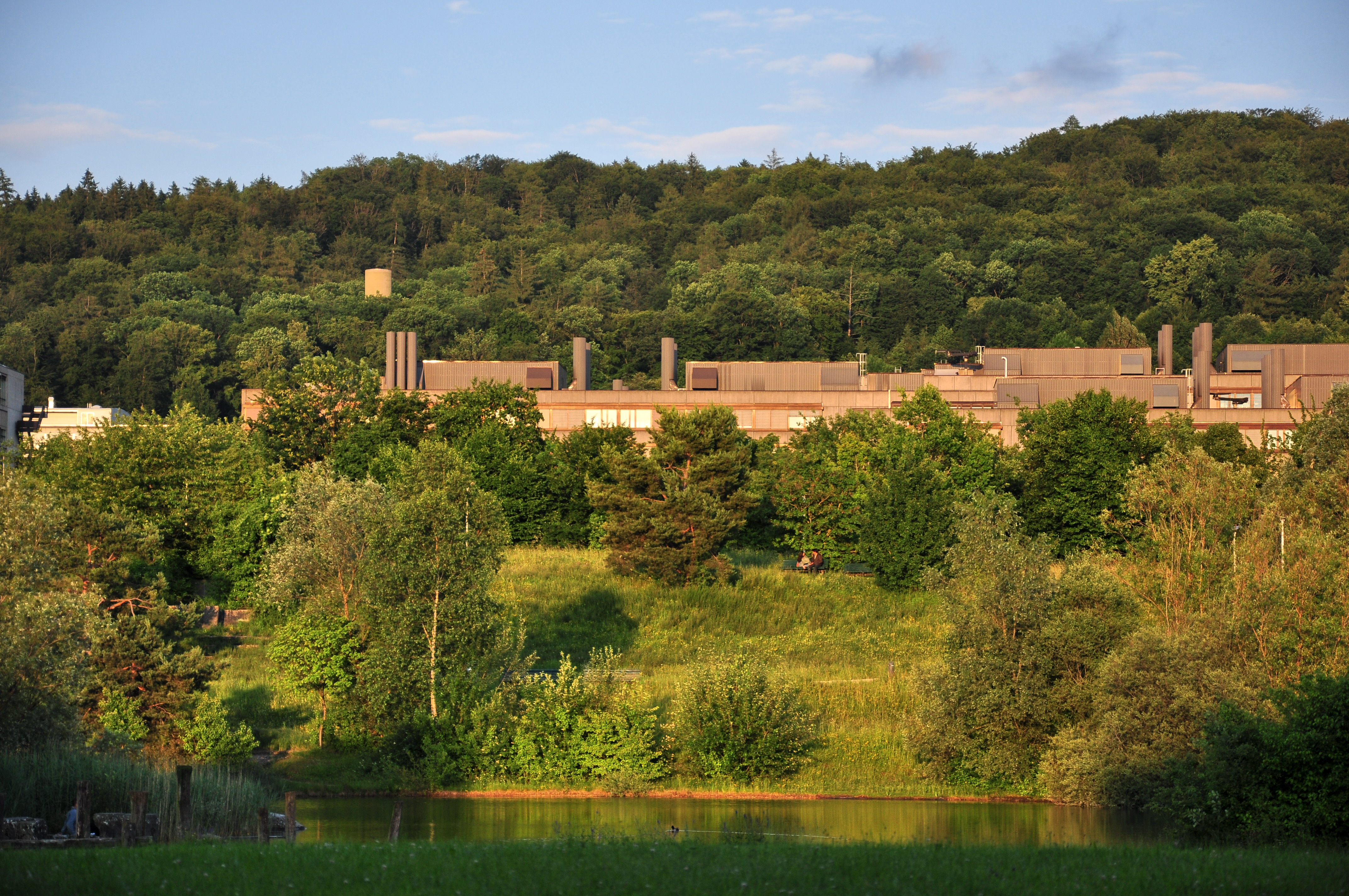 University of Zürich campus respectively Irchelpark in Zürich-Oberstrass (Switzerland)